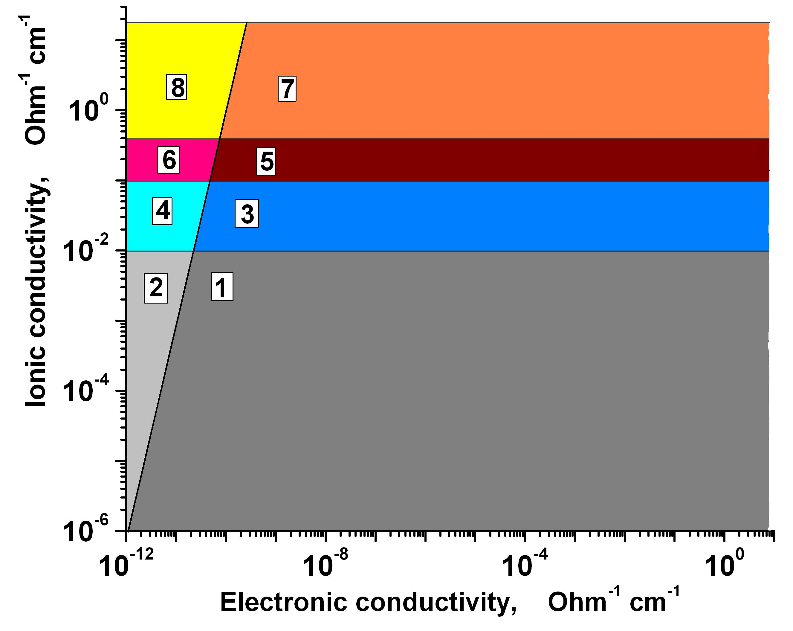 Despotuli